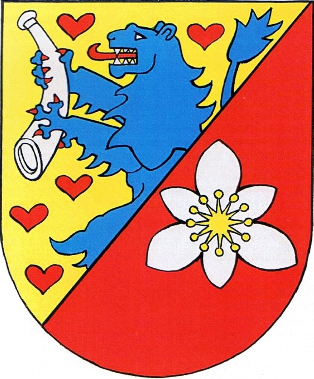 official Coat of Arms of the municipality Didderse (district of Gifhorn, lower saxony, Germany)